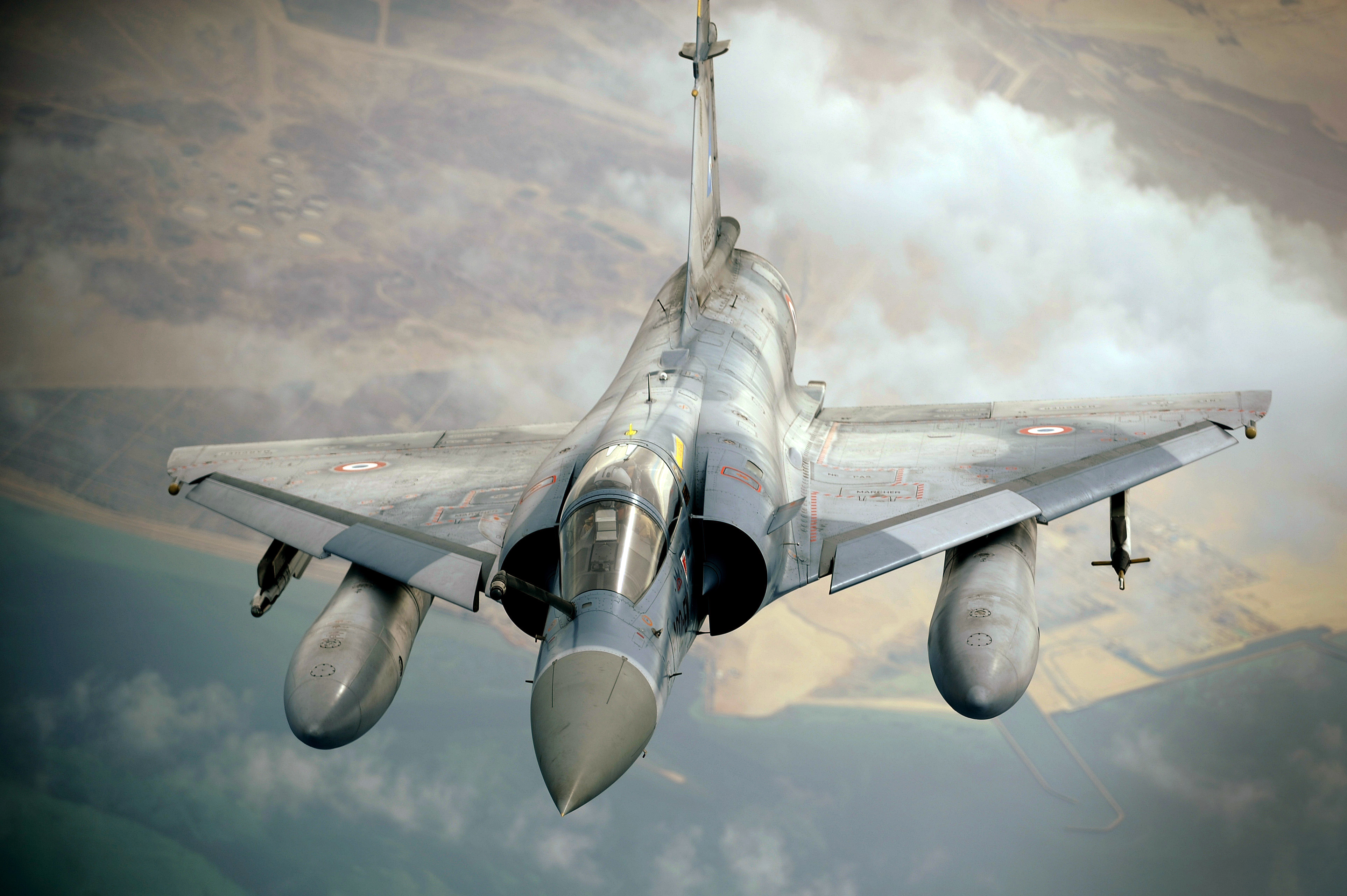 A French Mirage 2000 fighter moves away from a KC-10A Extender from the 908th Expeditionary Air Refueling Squadron after refueling during a multinational exercise Dec. 6, 2009, over Southwest Asia. Air crews from France, Jordan, Pakistan, the United Arab Emirates, the United Kingdom and the United States trained together in fighting a large-scale air war.